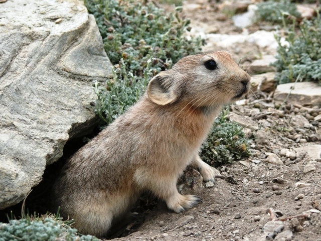 Ladak Pika (Ochotona ladacensis) at 5000m on the northern face of TangLang La Pass on the Manali - Leh Road.